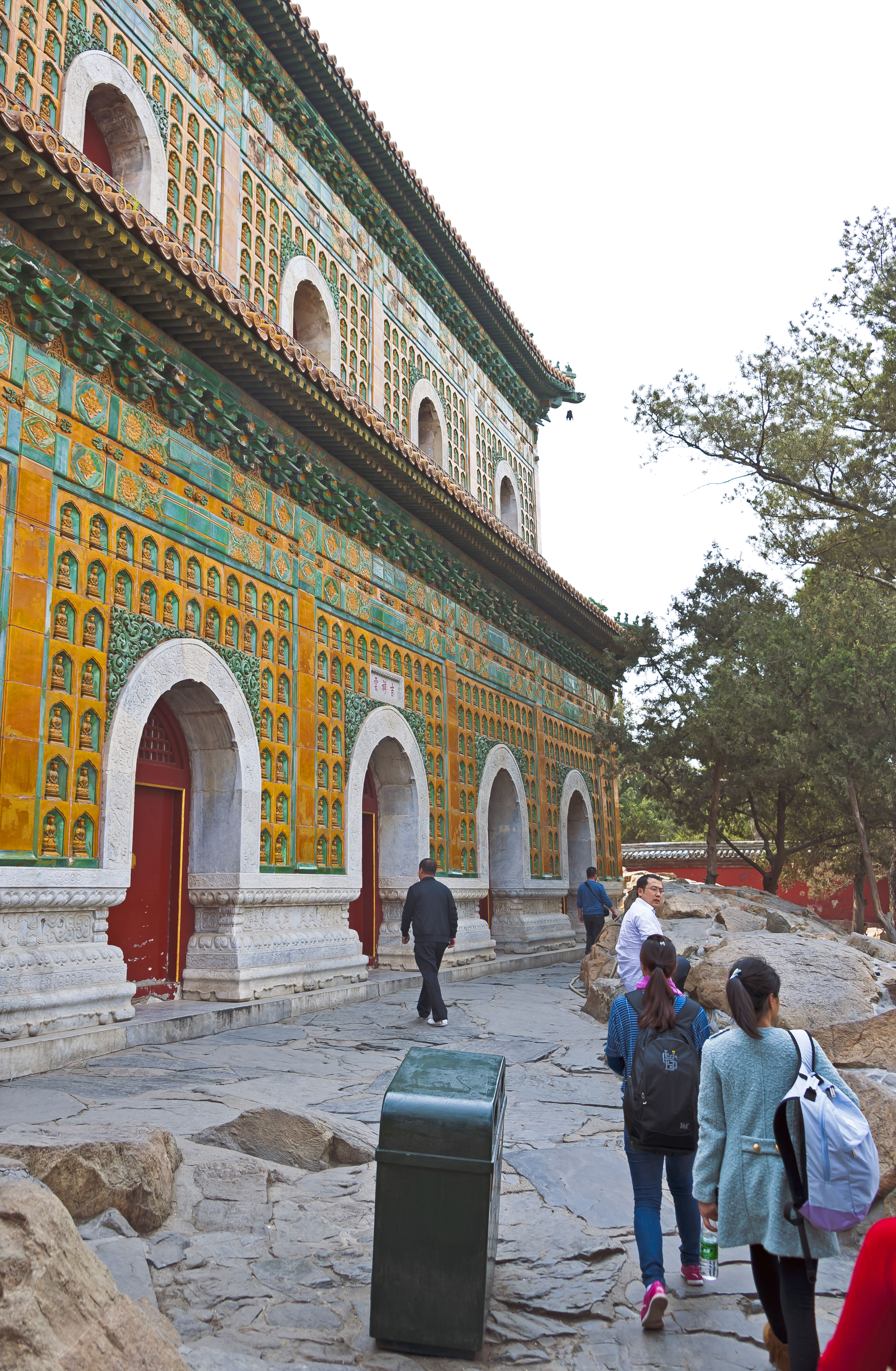 Tourists approaching the Hall of the Sea of Wisdom at the Summer Palace, Beijing, from the east (rear).